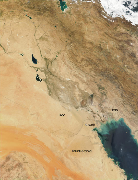 Mesopotamia